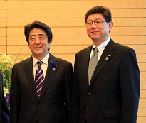 Leo Melamed, Chairman Emeritus of the CME Group Inc., met Shinzō Abe, Prime Minister, and Tsuyoshi Takagi, Senior Vice-Minister of Land, Infrastructure, Transport and Tourism, at the Prime Minister's Official Residence in Chiyoda Ward, Tōkyō Metropolis on July 1, 2014.